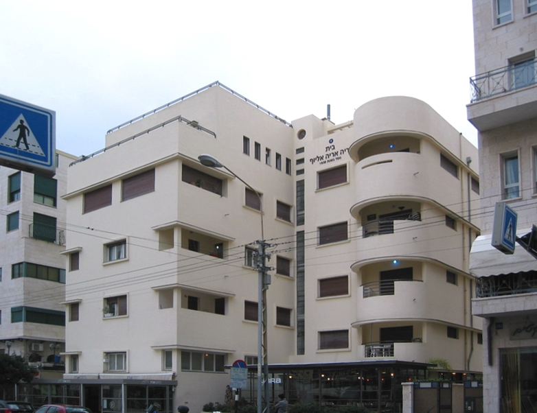 Modernist building on Ben Yehuda Street, in White City heritage district, Tel Aviv.